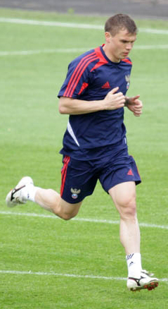 Marat Izmailov with Russia national football team